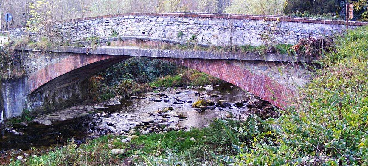 Birdge on Gallenca creek near Cuorgnè (TO, Italy)